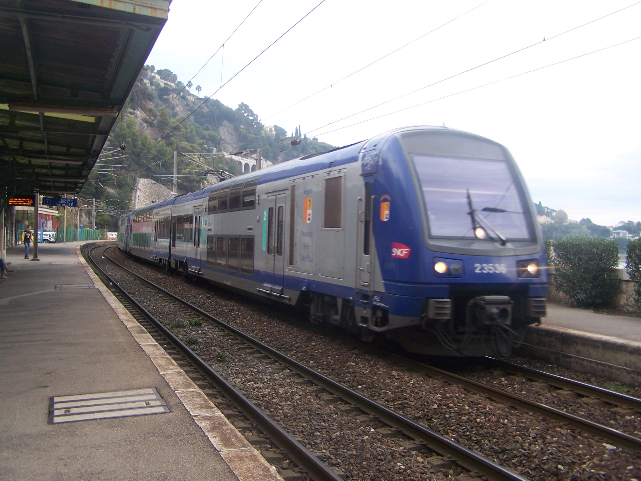 French regional train bound for Nice is stopping at Villefranche sur Mer station, in the department of Alpes-Maritimes.